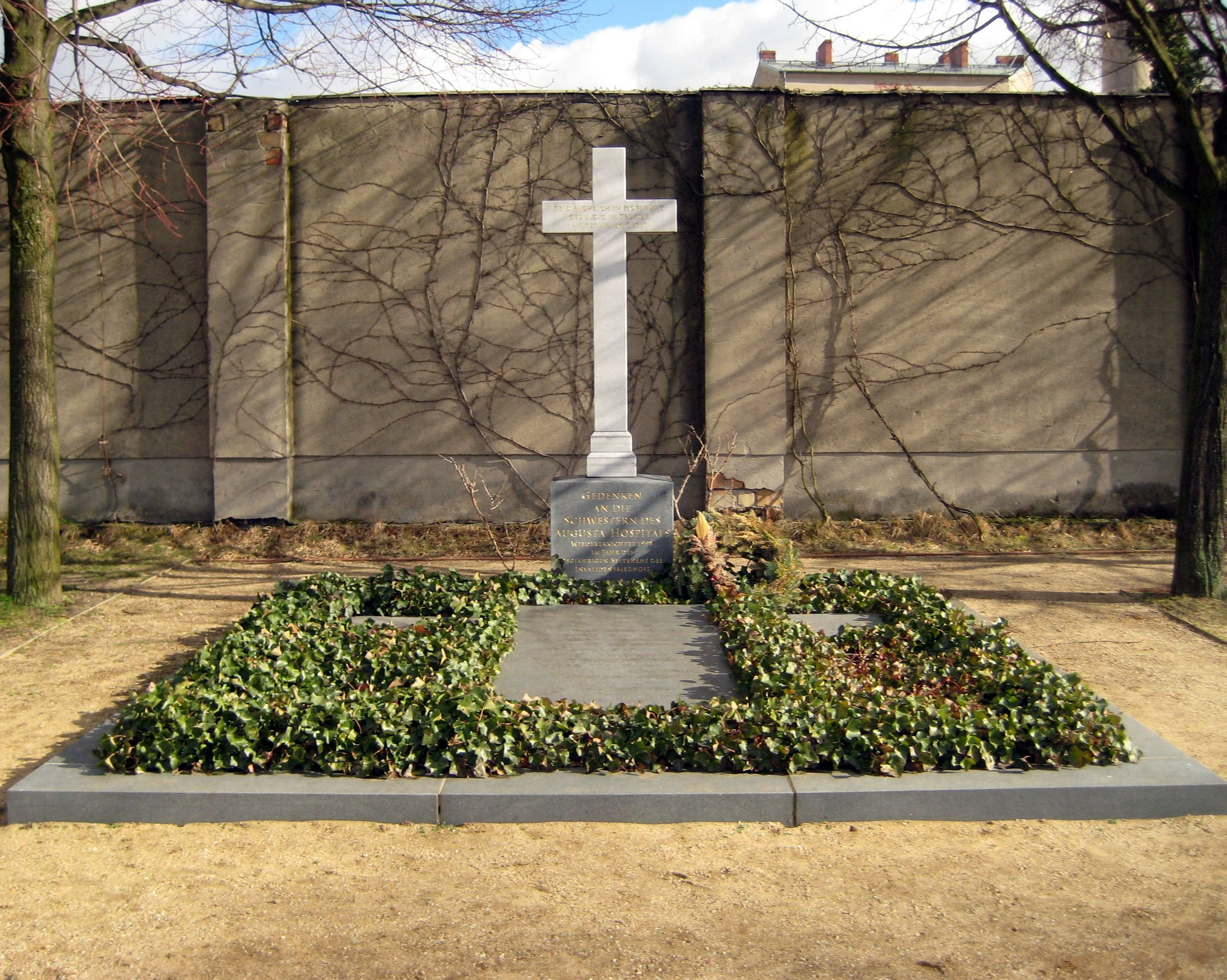 grave site of nurses of Augusta Hospital on Invalidenfriedhof cemetery in Berlin, reconstructed in 1995